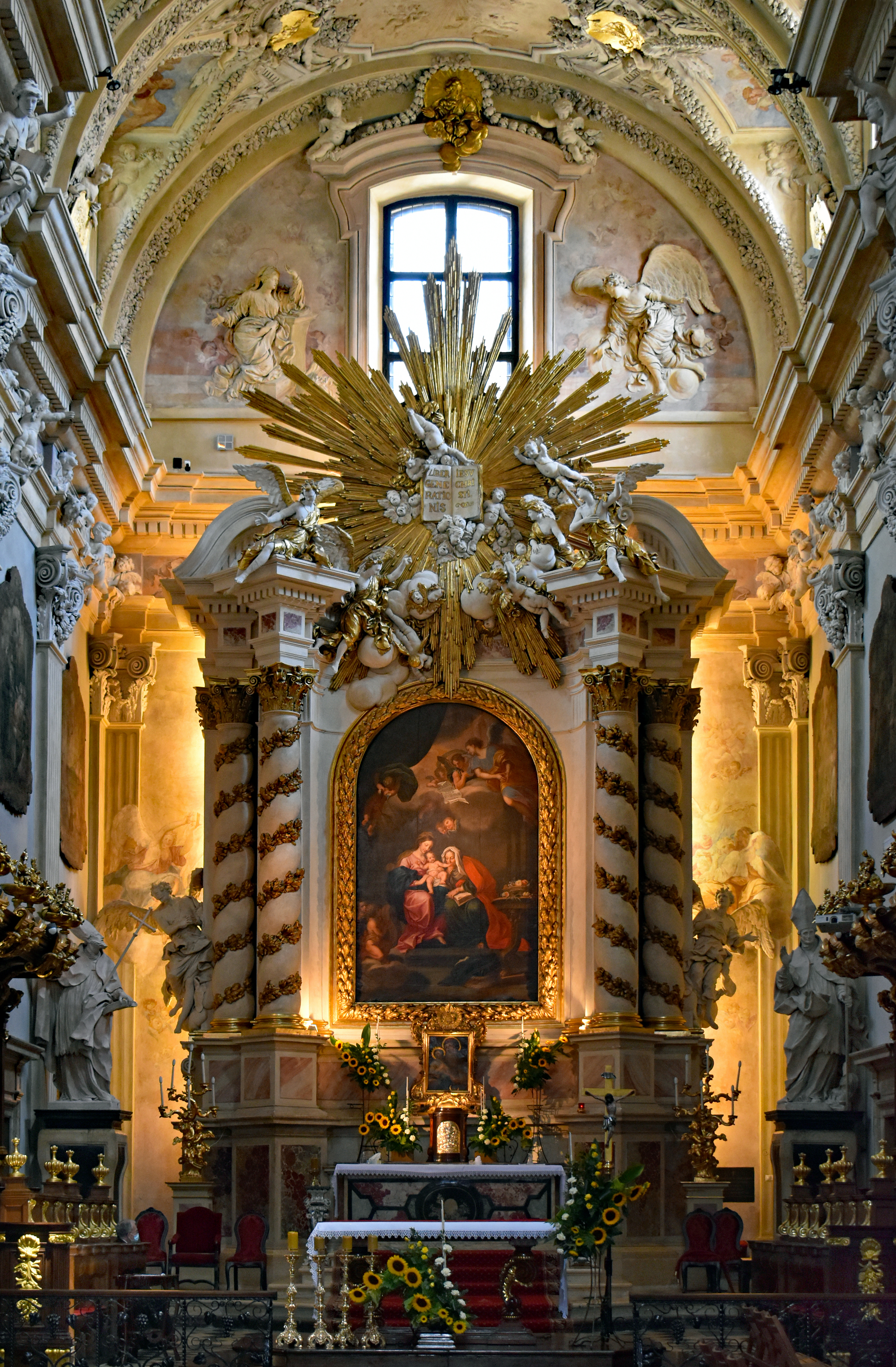 Church of St. Anne, main altar, 13 sw. Anny street, Old Town, Krakow, Poland